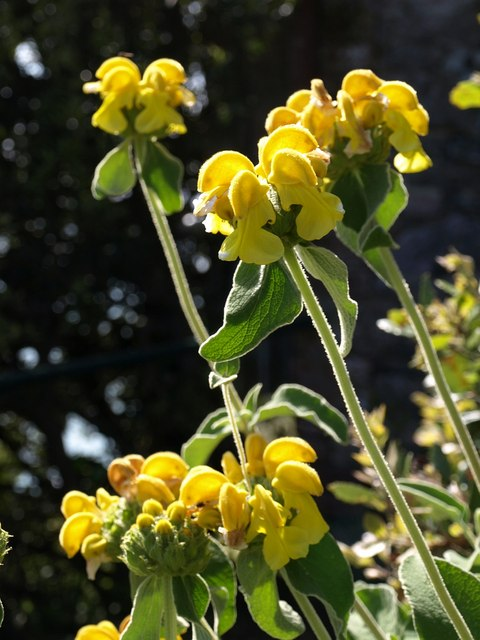 Phlomis, Rock End Walk. Whether or not this is Jerusalem Sage, Phlomis lanata (a native of Cretan mountains), as suggested in 821877, it certainly lends an exotic Mediterranean air to this corner of the English Riviera.